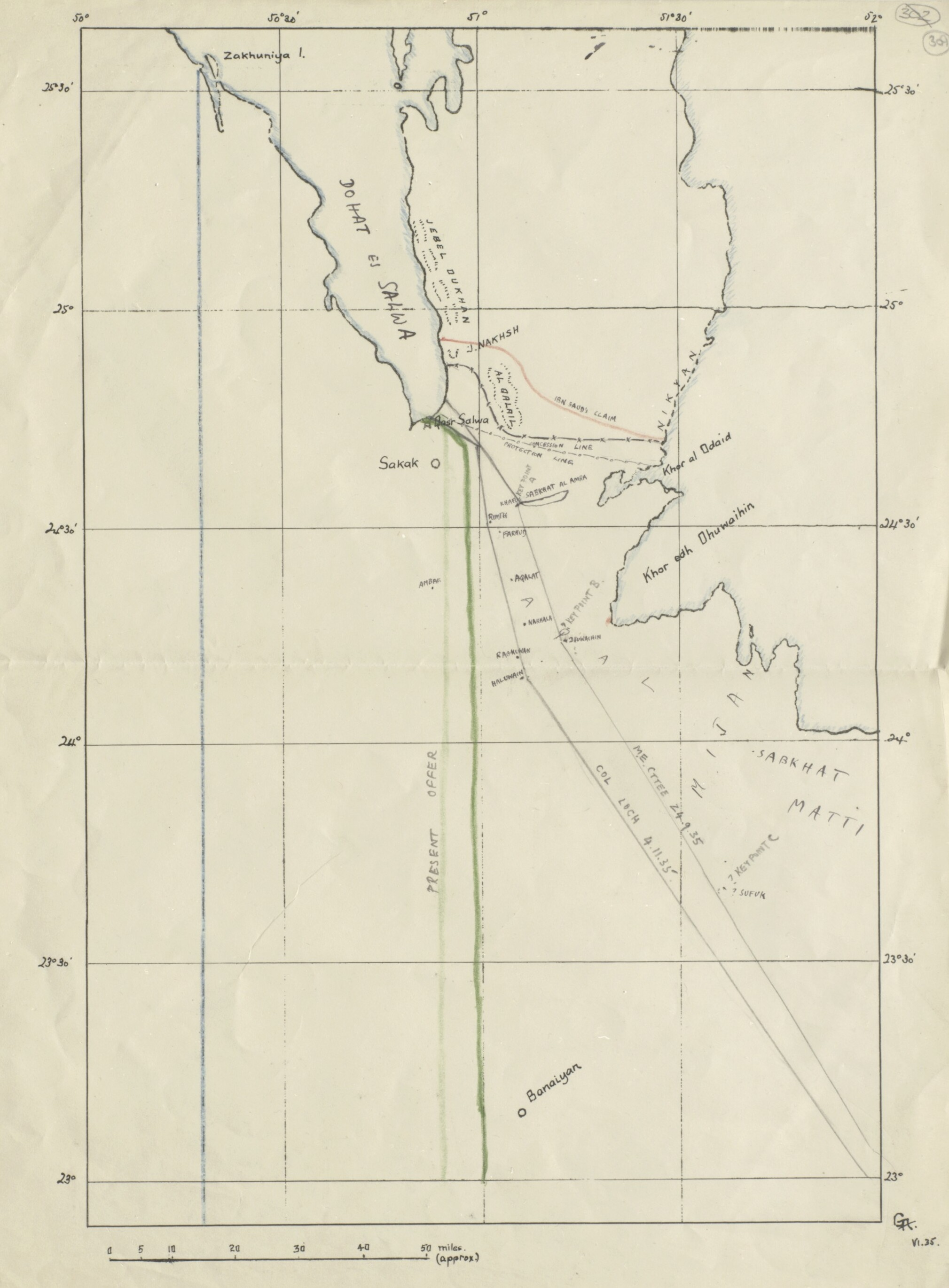 "This map depicts the eastern part of the Arabian Peninsula. It shows prospective lines for the eastern boundary of Saudi Arabia in crayon and pencil. [...] A line drawn in red crayon is marked as Ibn Saud's [‘Abd al-‘Azīz bin ‘Abd al-Raḥmān bin Fayṣal Āl Sa‘ūd] claim for the Saudi Arabia-Qatar boundary."